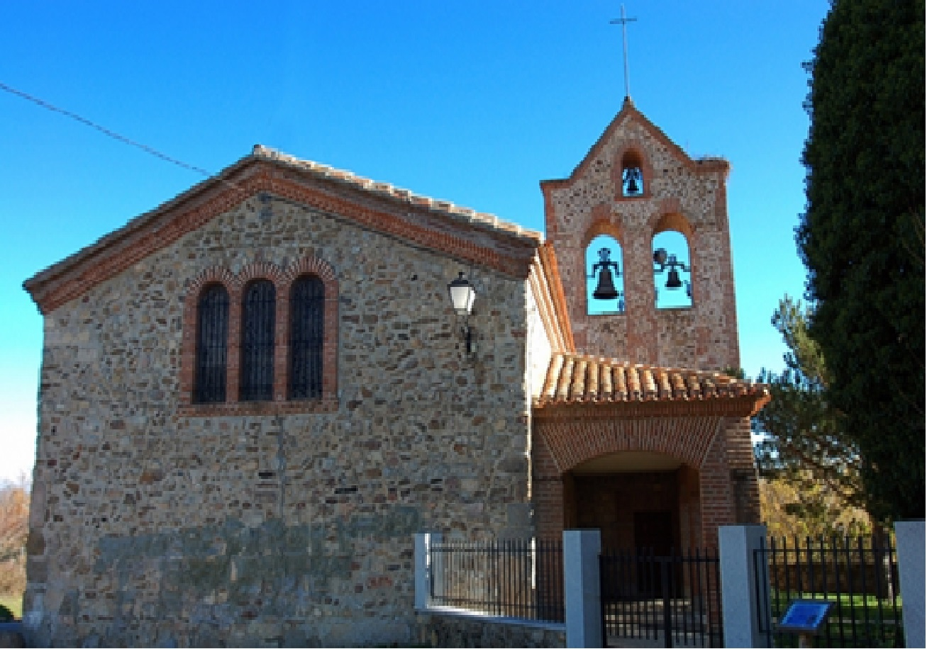 Iglesia San Mames (Madrid)